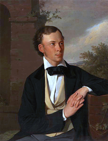 Władysław Syrokomla (Ludwik Kondratowicz)